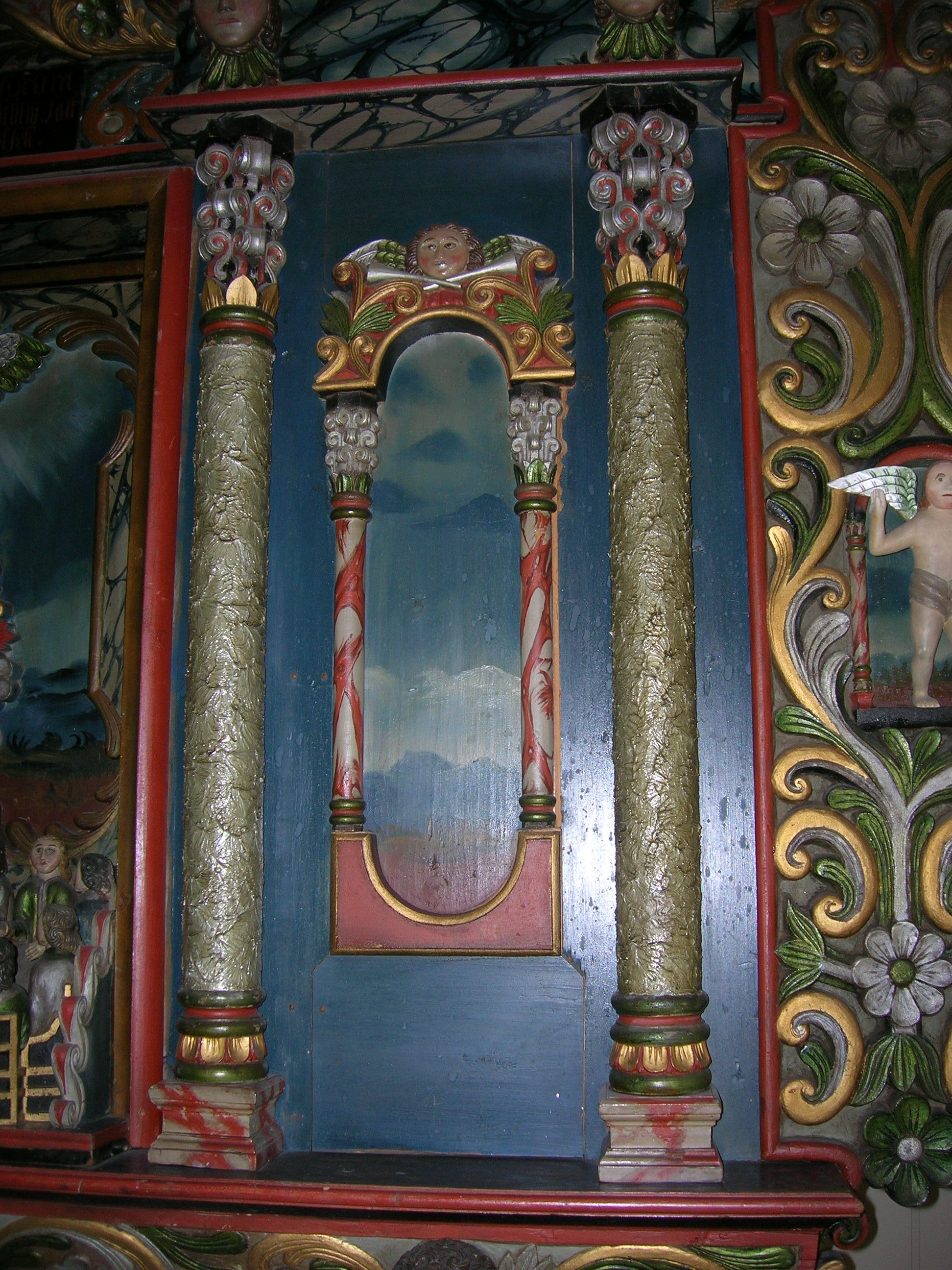 Detail on the altarpiece from 1765 in Mo church, Mo i Rana, Rana municipality, Norway. Photo on June 4, 2008 with a Nikon Coolpix 5600 5,1 Megapixel camera.